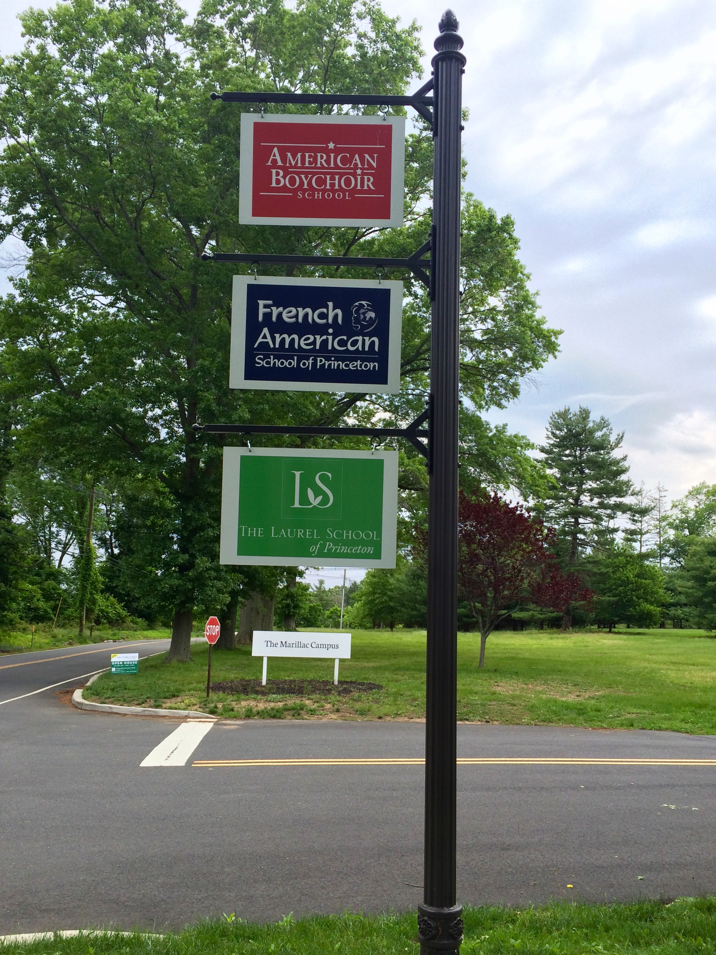 Schools signs of the Marillac campus at St. Joseph's Seminary of Princeton, New Jersey (actually located in Plainsboro, New Jersey but with a Princeton address)